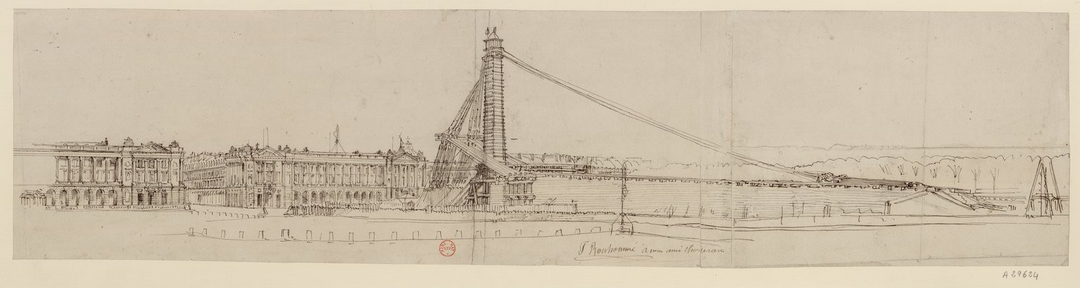 Appareil pour l'érection de l'Obélisque, dessin signed F. Bonhommé.